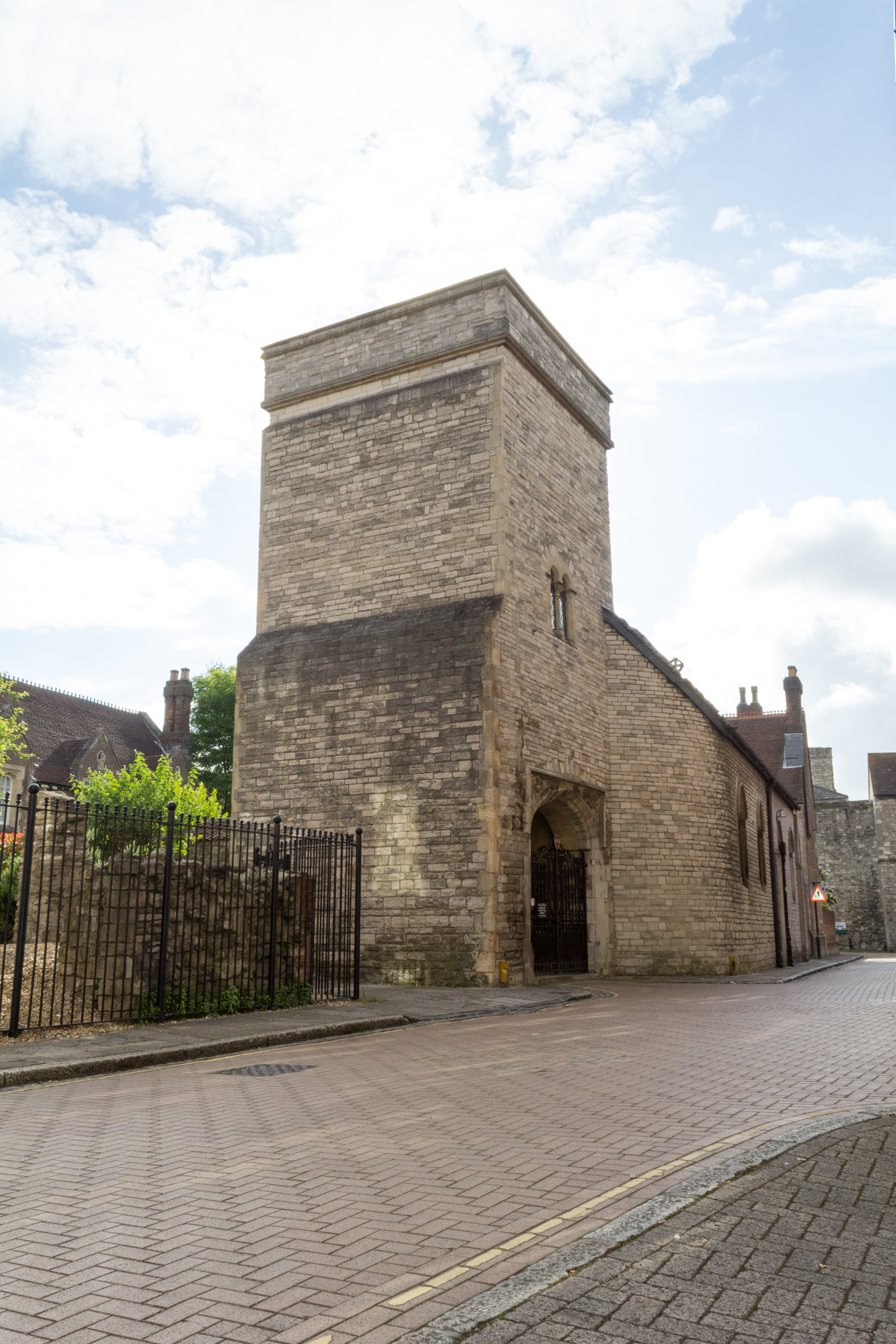 Church of St Julien, Southampton Wikidata has entry Q5117270 with data related to this building.